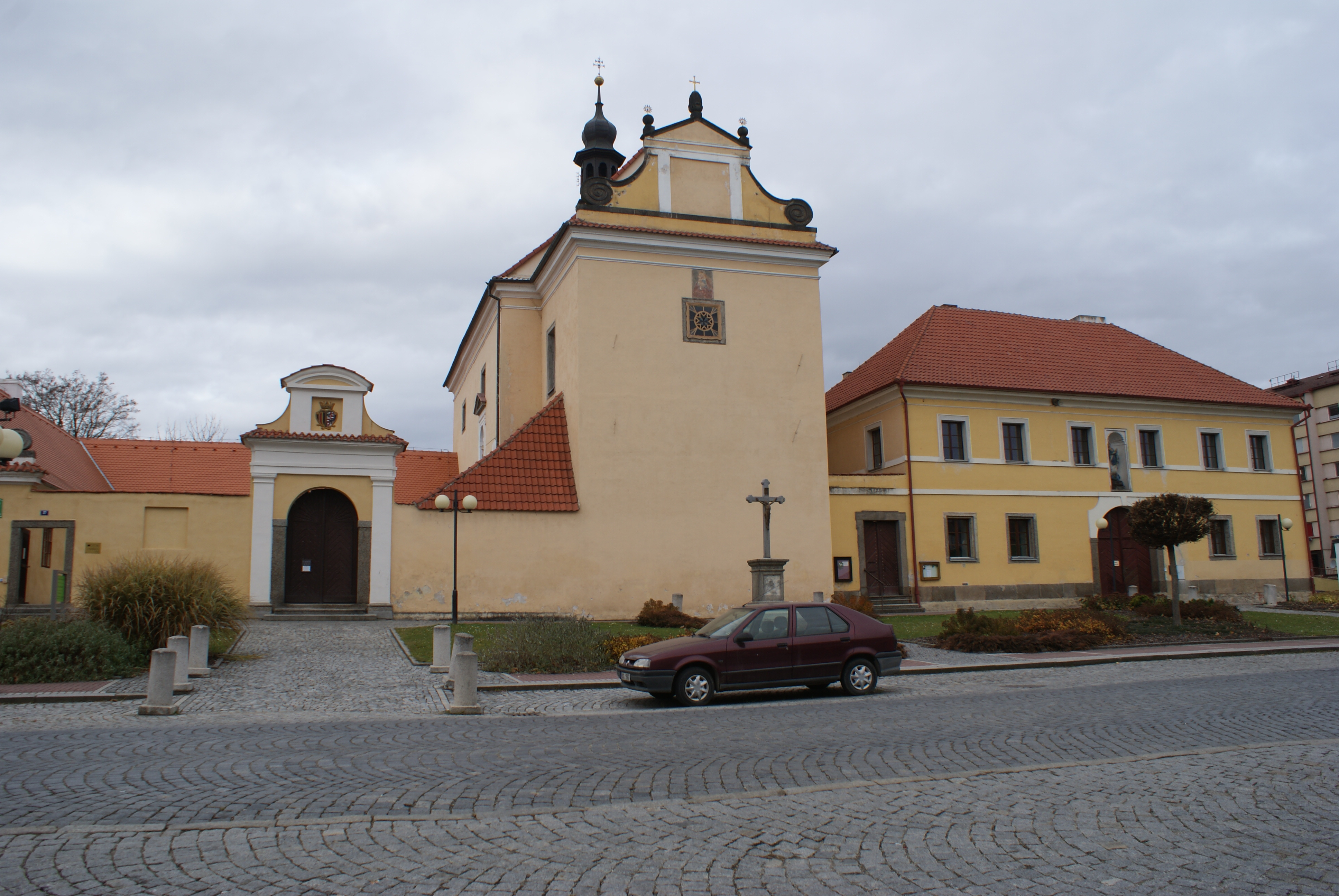 Protivín town in Písek district, Czech Republic. Church of St Elizabeth on the Masaryk square